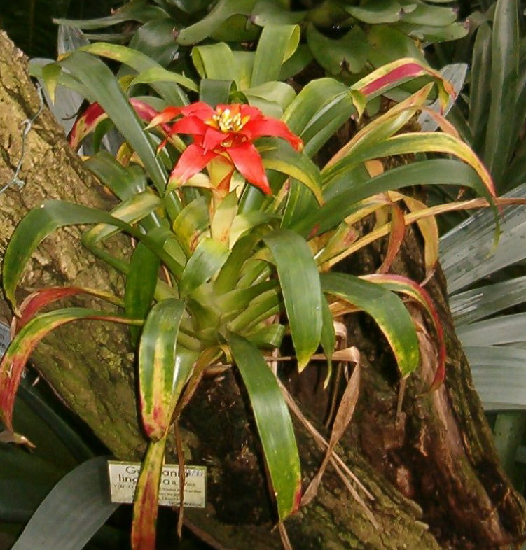 Location: Botanical Gardens Berlin Dahlem Habitus and Inflorescence